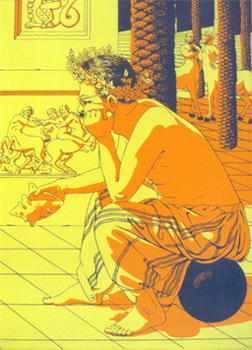 Selfportrait as "Melancholy" by A. Duerer